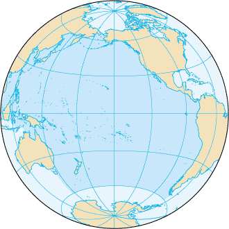 Pacific Ocean map, tagged in English